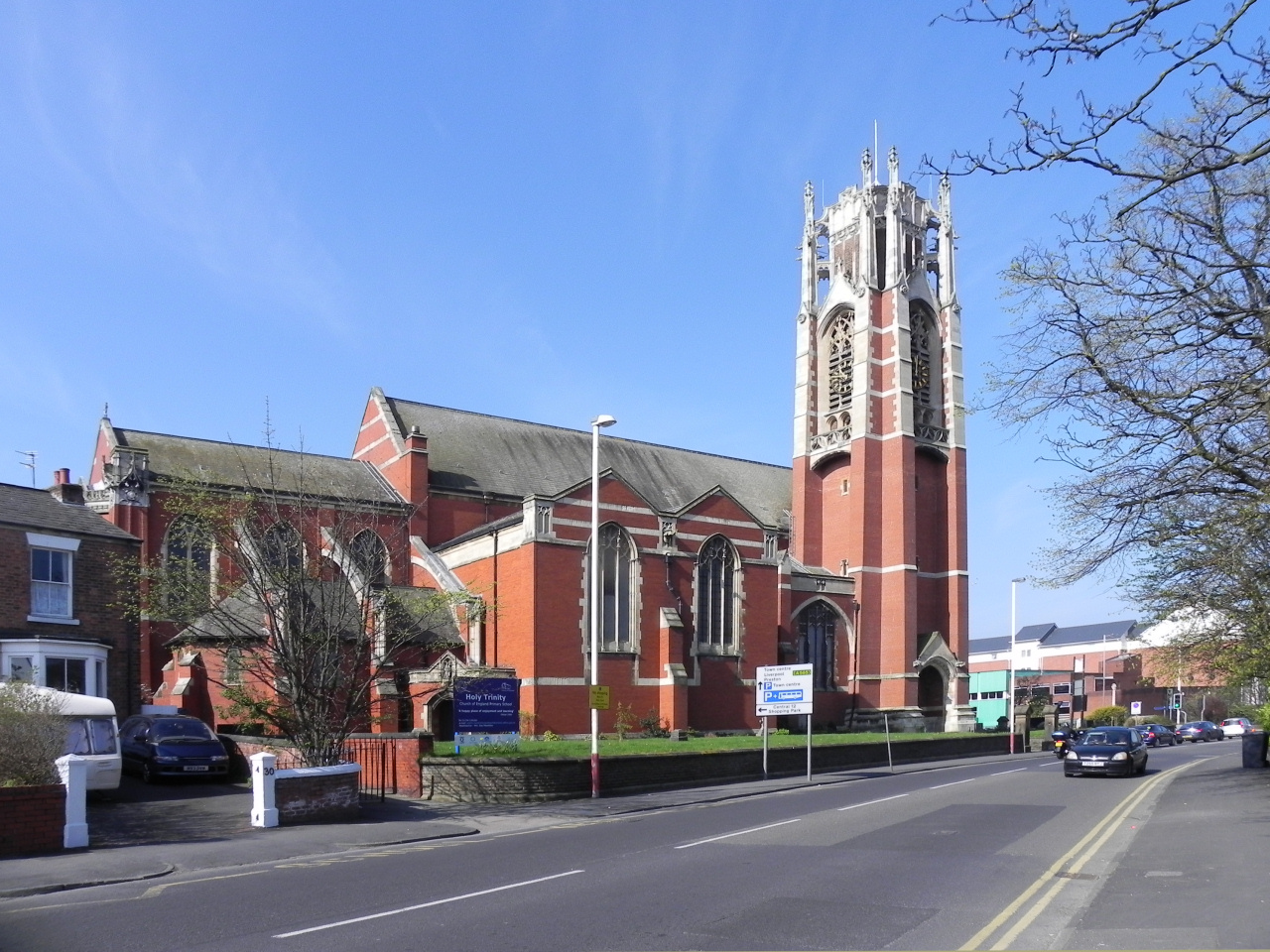 Photograph of Holy Trinity Church, Southport, Merseyside